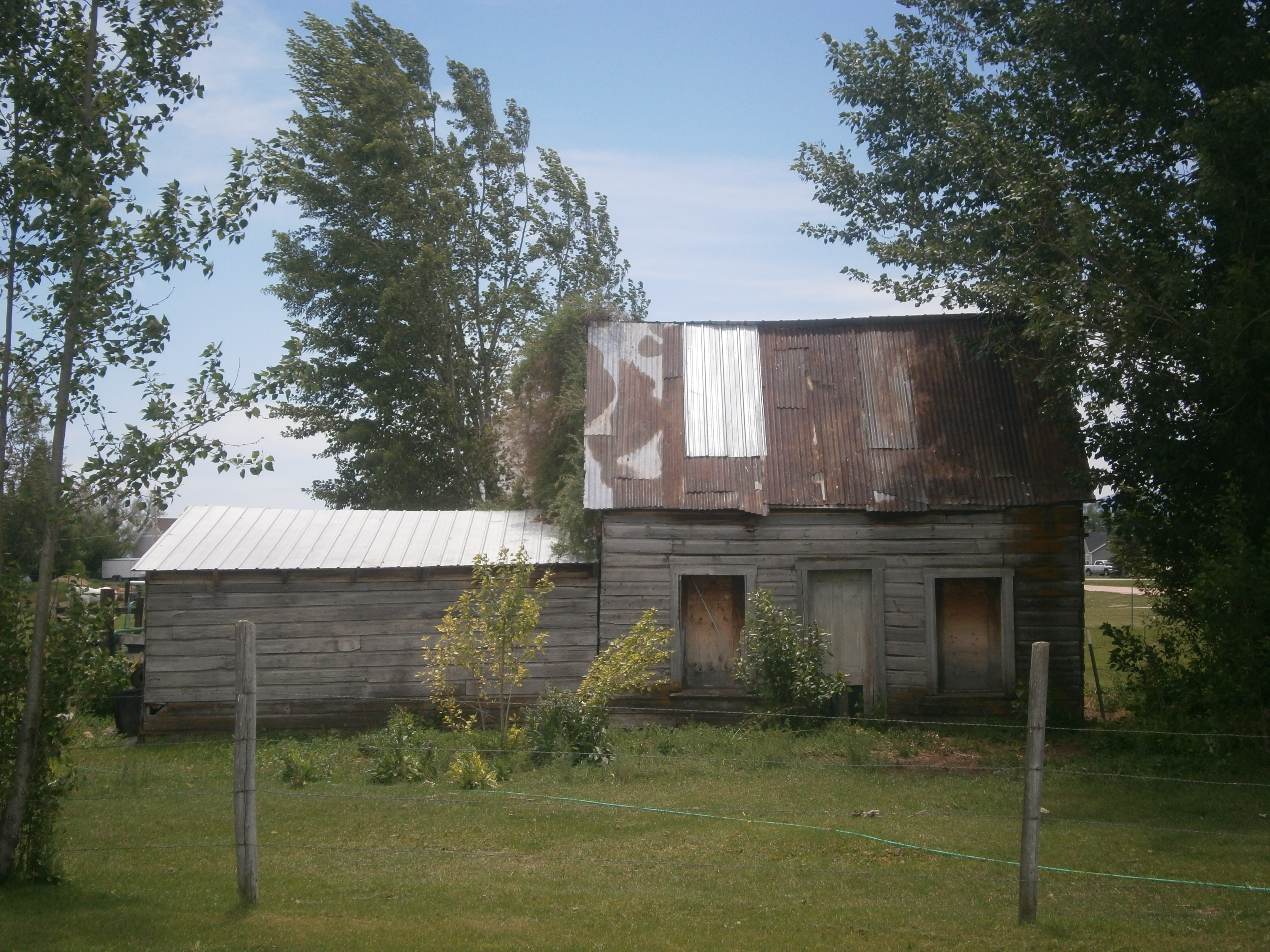 The Keller House, a historic home in Paris, Idaho, United States.